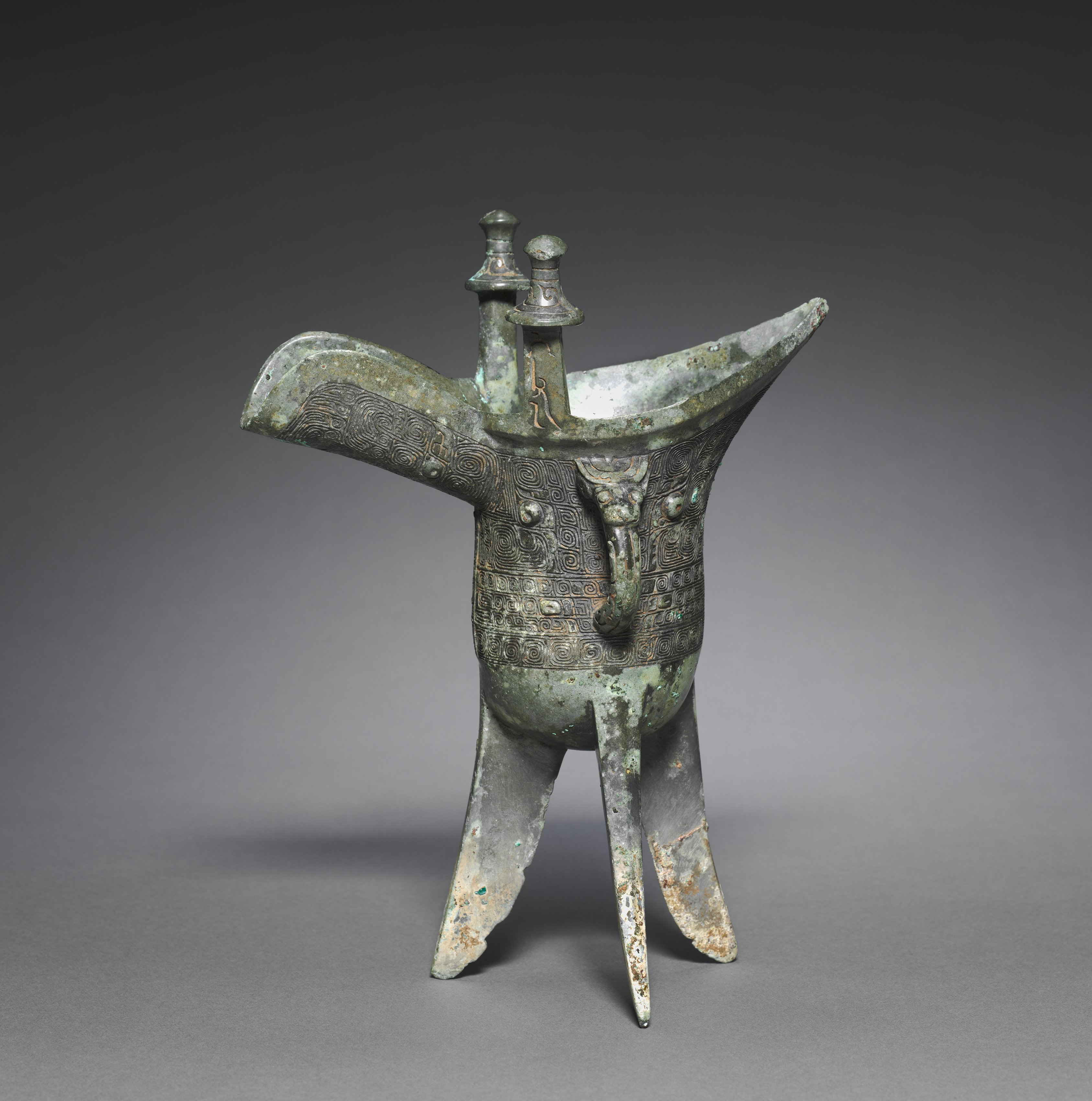 Wine and food played a major role in ritual offerings to the ancestral spirits and the "Supreme Ancestor" (Shangdi) performed by the Shang rulers in the state cult of ancestor worship. A variety of wine vessels--each type given a specific name--was cast to bear witness to the power and artistic vitality of this remote civilization. This example of a jue wine cup is for libations. Other major types of wine vessels include jia (wine warming vessel), fangyou (square wine container), and gu (beaker with a trumpeted mouth for pouring).